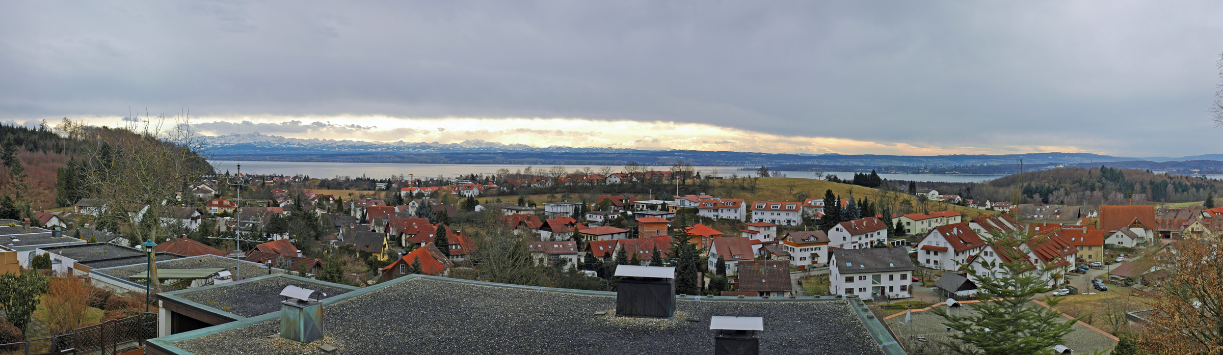 Panoramic view over Daisendorf